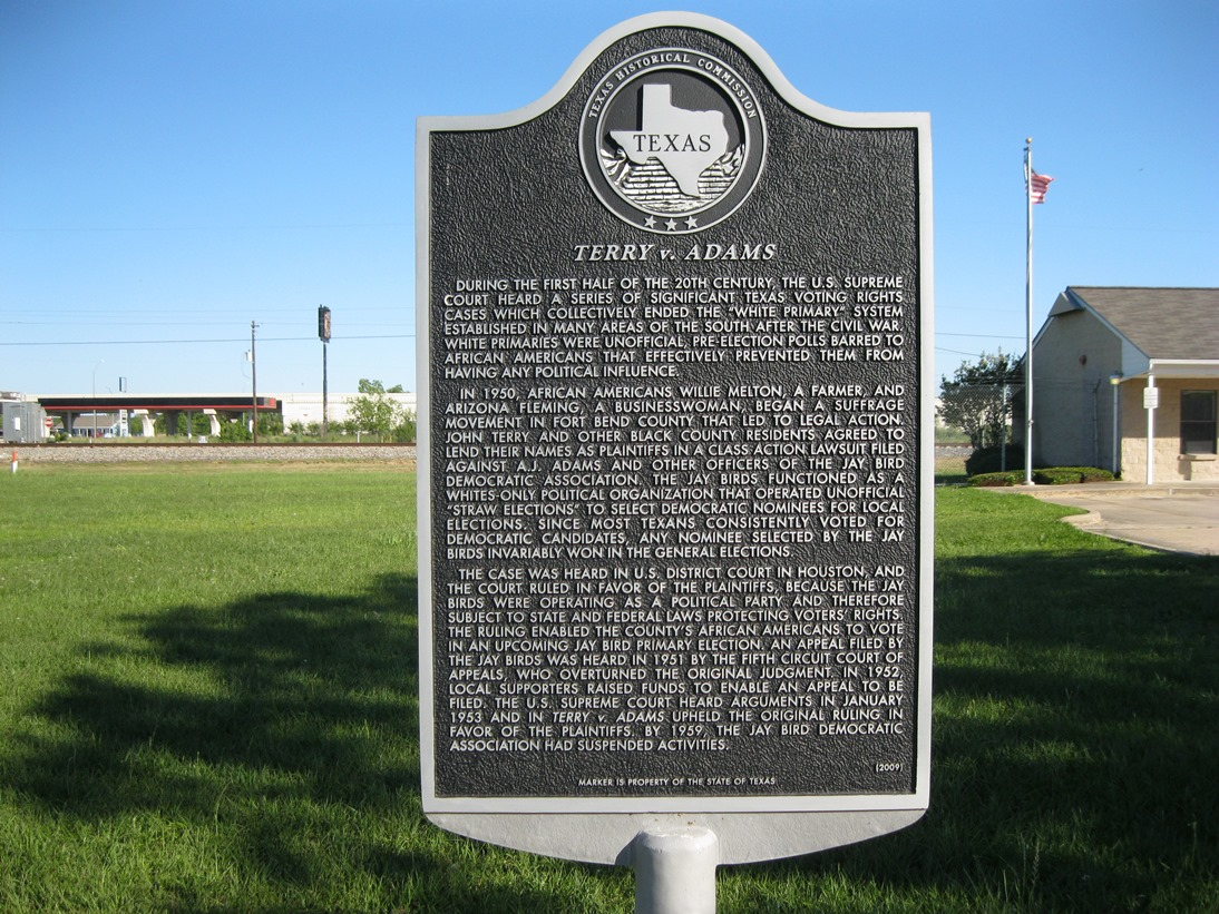 Photo shows the state historic marker near the US Post Office in Kendleton, Texas. The marker explains the Terry v. Adams case that was decided by the US Supreme Court in 1953.